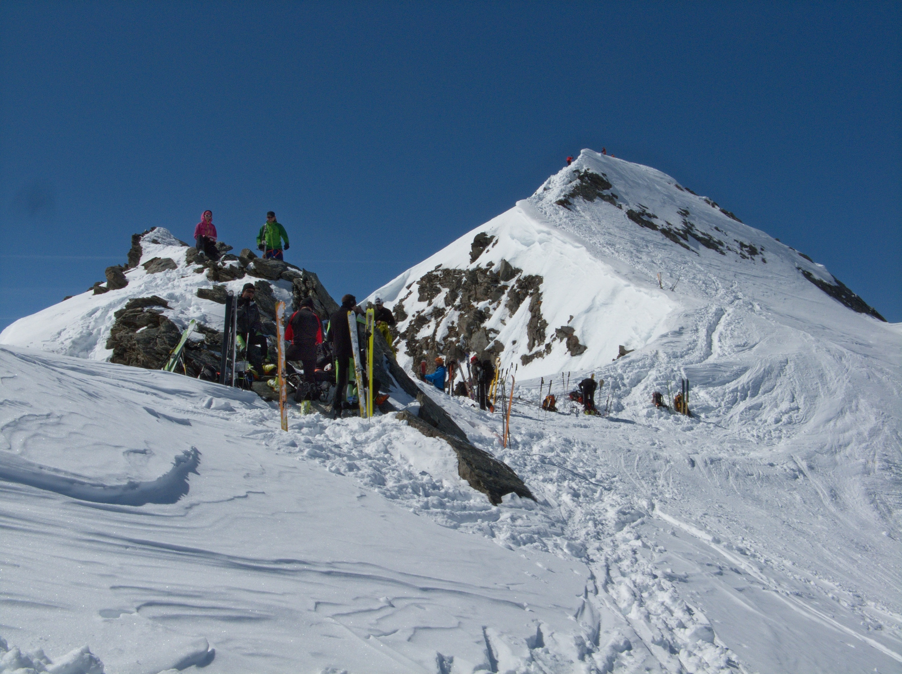 Rosablanche